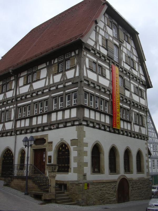 "Old University" in Eppingen, Germany